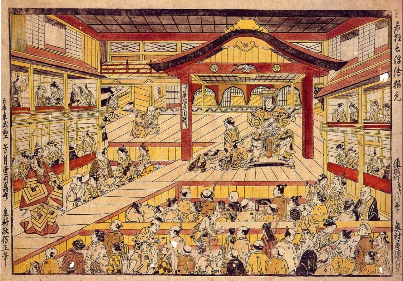 Okumura Masanobu: Kabuki theater, 1743, print, 32x46 cm.